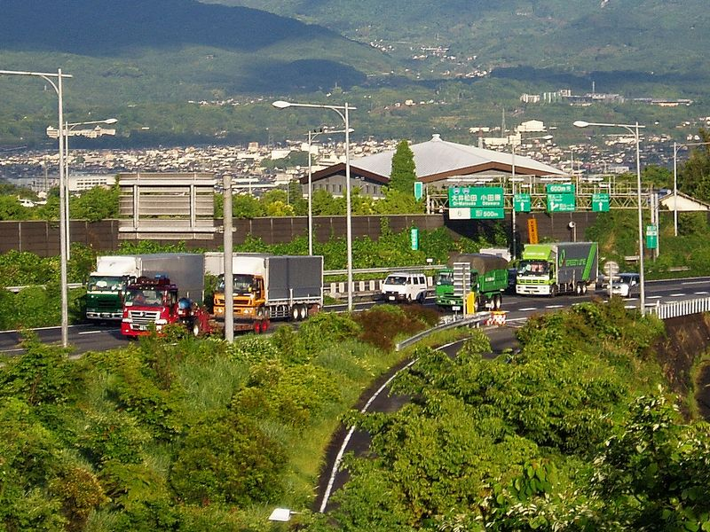 Tomei Expway at Ooi-matsuda